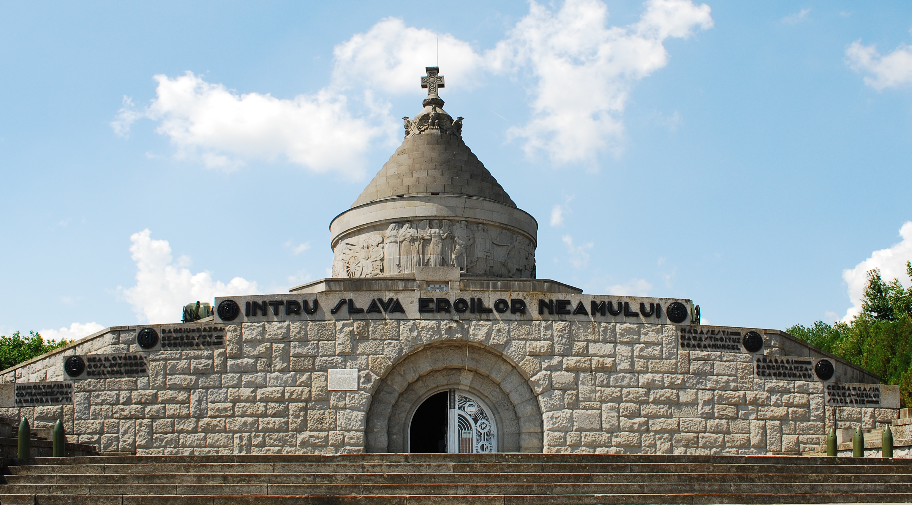 Mărăşeşti mausoleum, Vrancea County, Romania